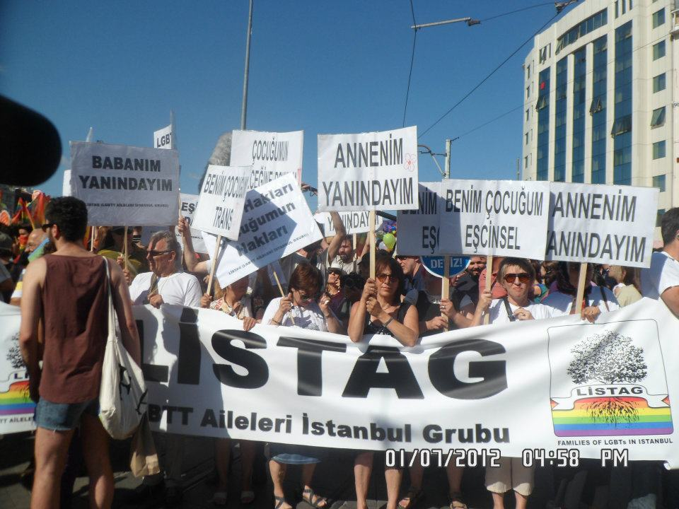 2012 Gay Pride Parade, Istanbul.